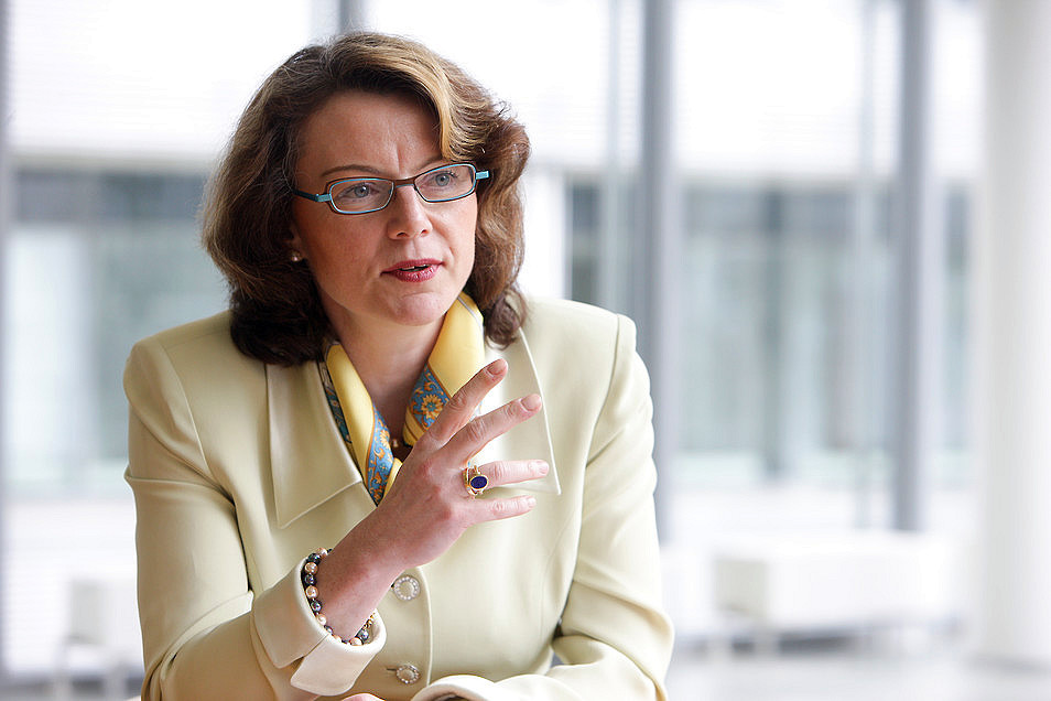 Kerstin Günther - Chairman of Hungarian Telekom